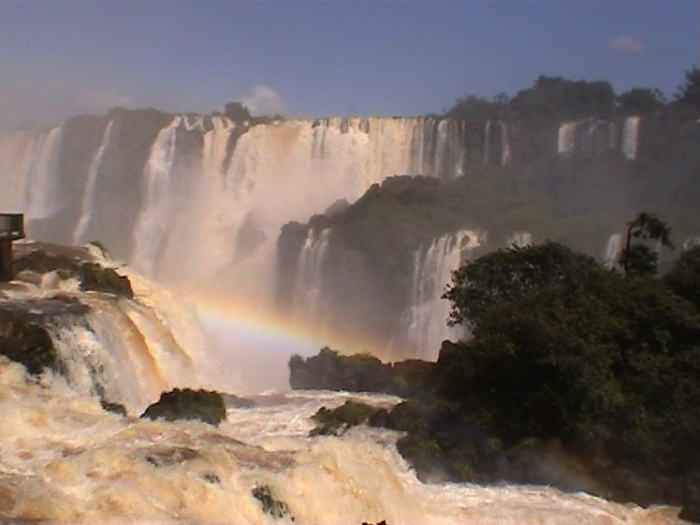 FOZ NATIONAL PARK